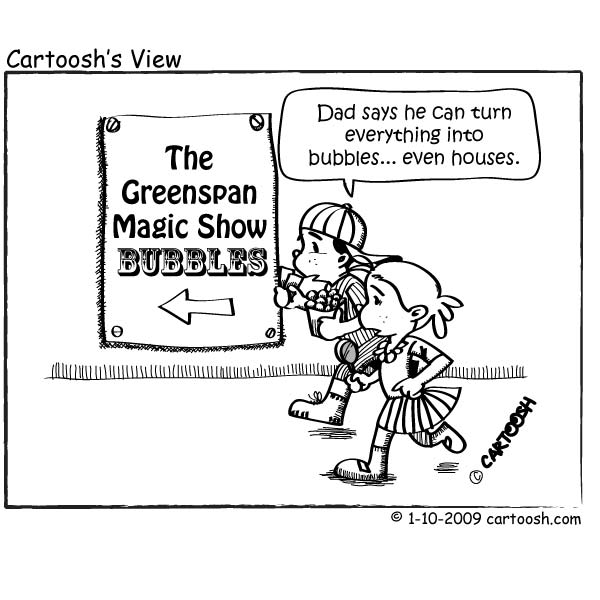 Cartoon - two children are going to see Alan Greenspan give a magic show - Greenspan can "turn anything into a bubble... Even houses."